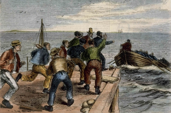 Escape of Fenian convicts from Fremantle, Western Australia, engraving, paper, ink, 20.5 x 25.6 cm, published in the Australasian Sketcher (cropped from original to remove border and caption)